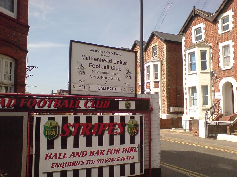 The entrance sign to York Road, home of Maidenhead United F.C.